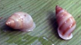 Photo of Partula taeniata from Moruu Valley on Moorea.